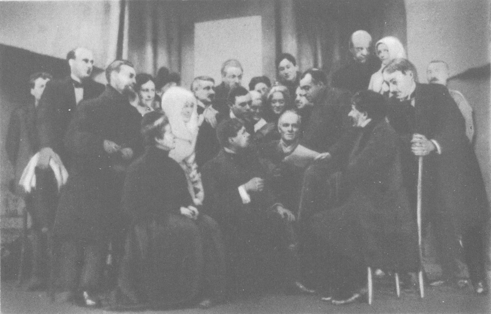 Russian Yevgeny Vakhtangov (1883-1922)